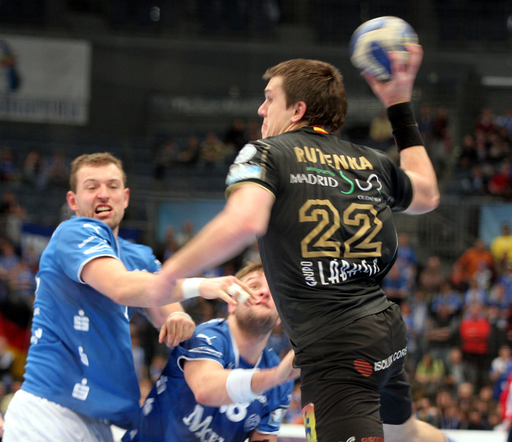 Siarhei Rutenka, handball player of BM Ciudad Real (Spain), in the Kölnarena prior the champions league game VfL Gummersbach vers. BM Ciudad Real on February 20th, 2008